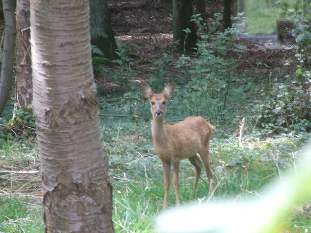 Young roe deer on the edge of woodland east of Tubney, Oxfordshire, England.